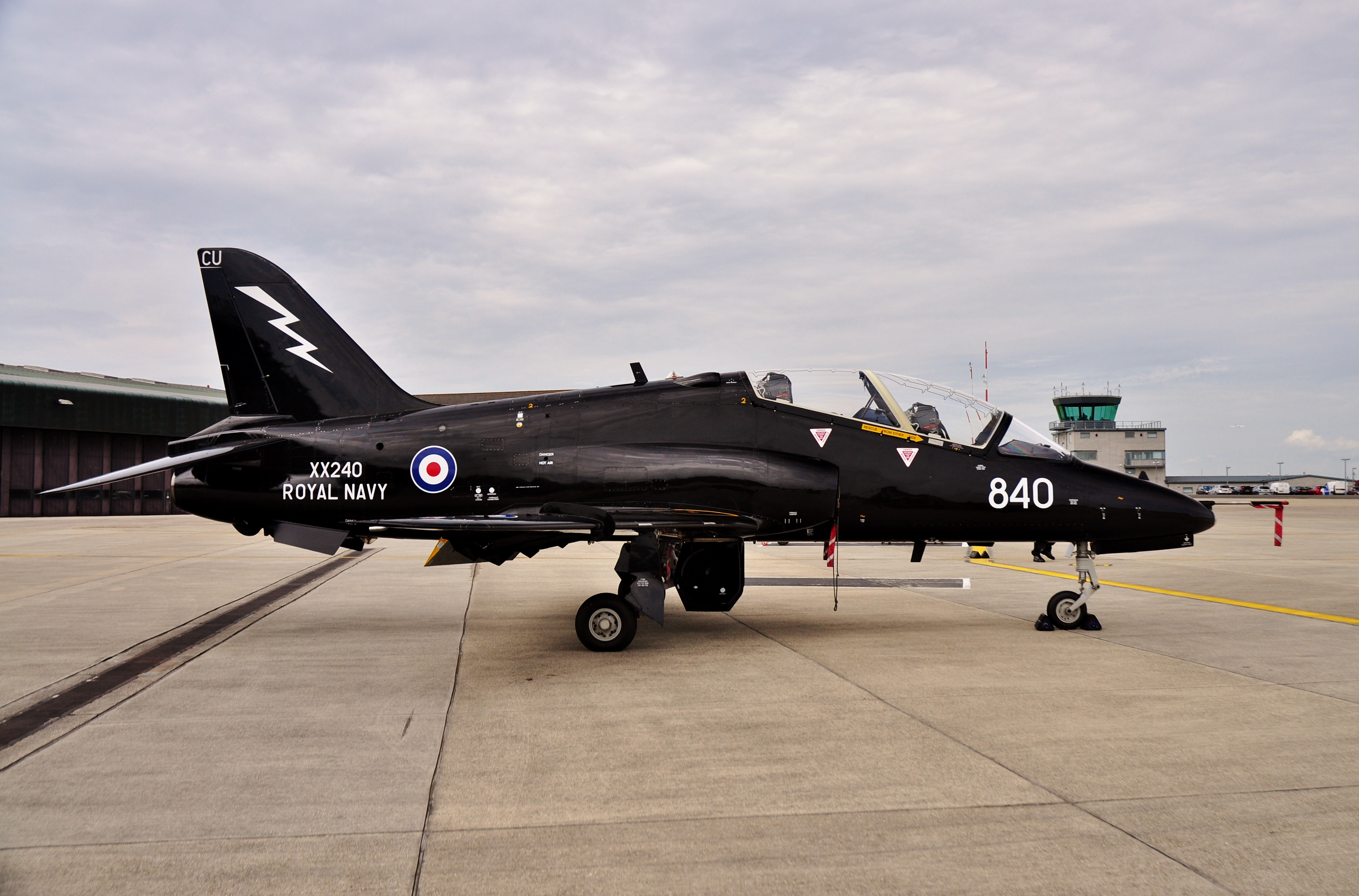 BAe Hawk T1A, XX240, was the 1st aircraft to be painted with the new squadron markings and is seen here at RNAS Yeovilton in August 2014.